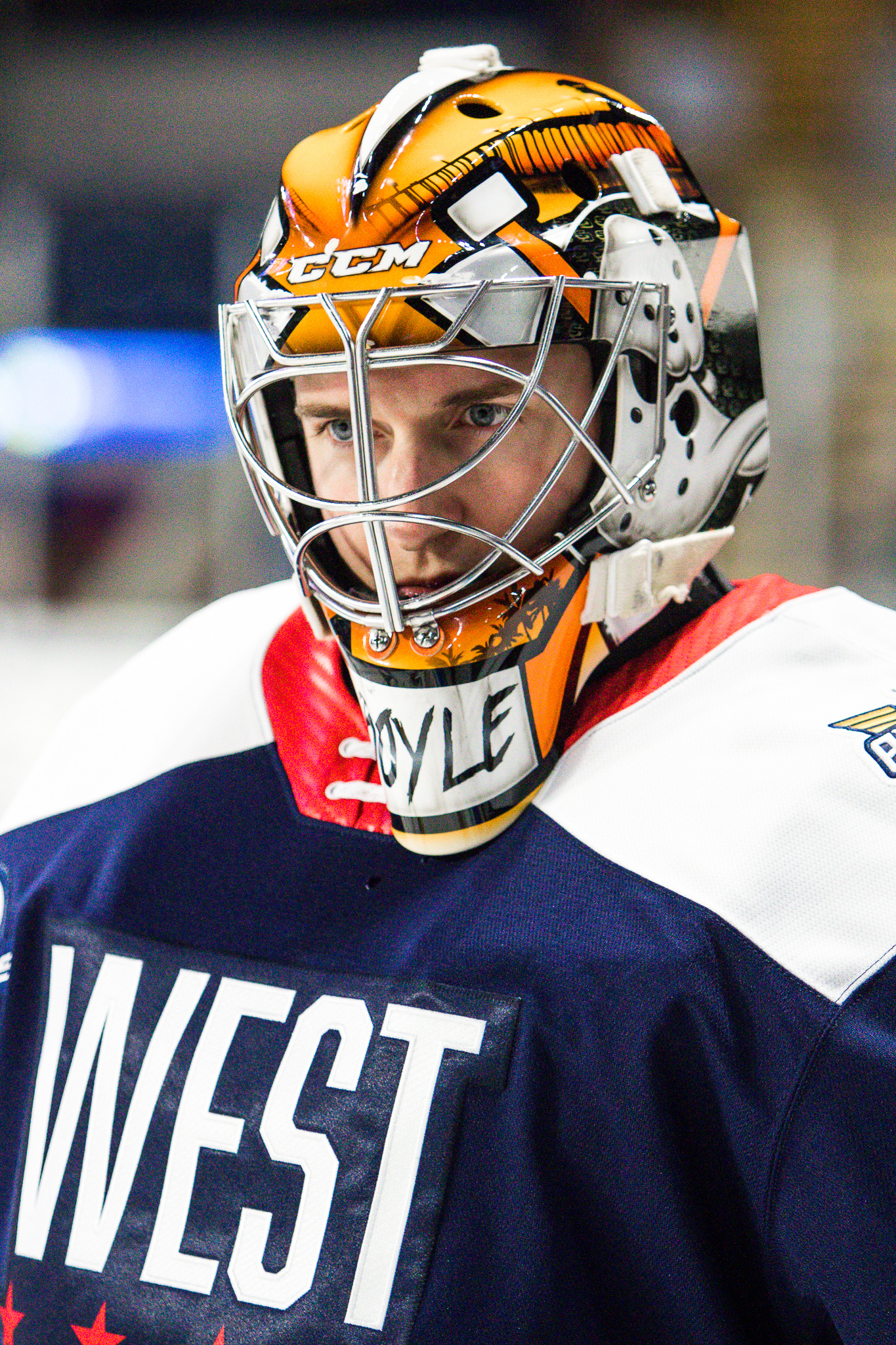 Photo By: Kelly Shea